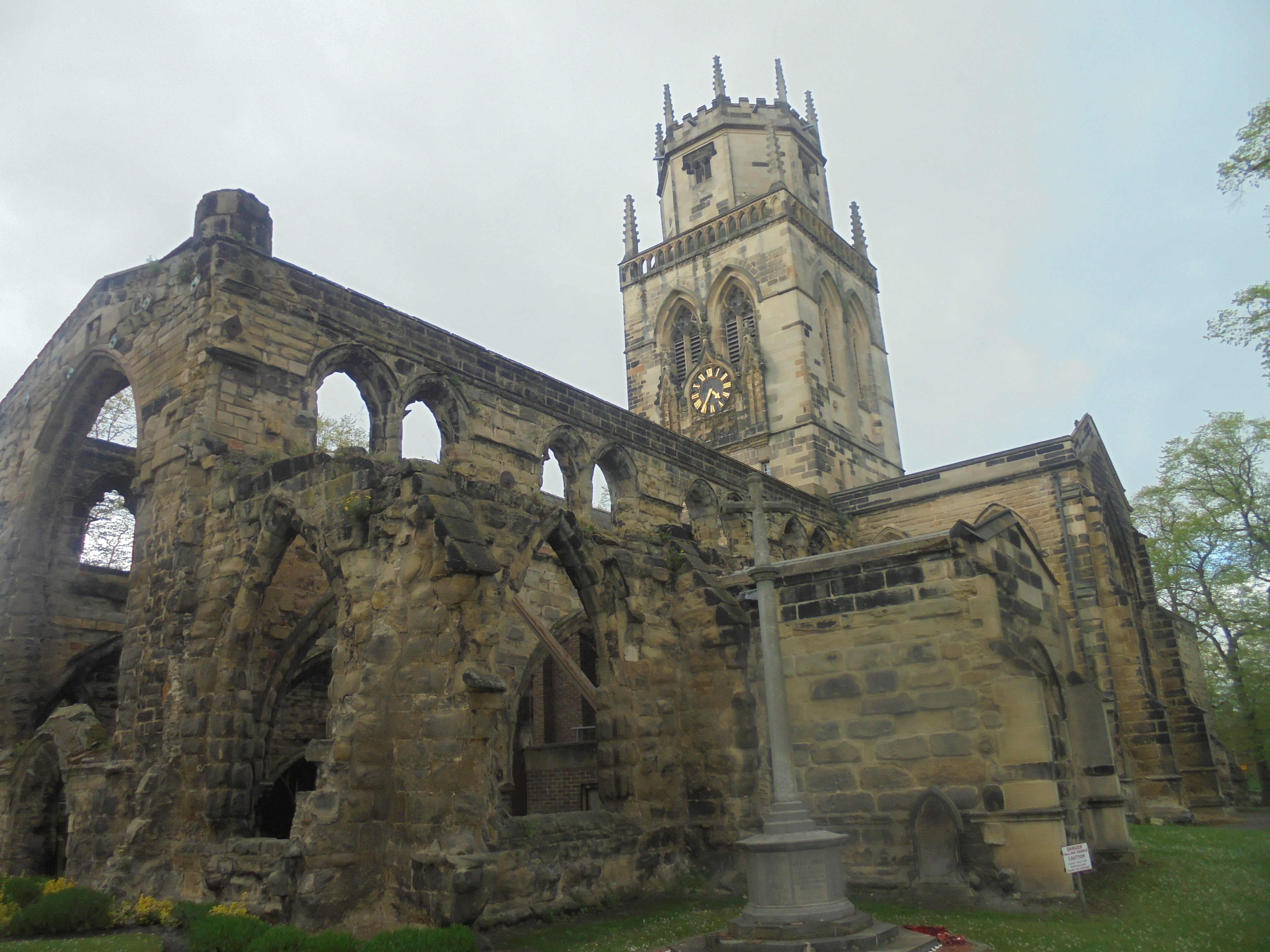 All Saints' Church, Pontefract, West Yorkshire. Taken on the afternoon of Thursday the 25th of April 2019.